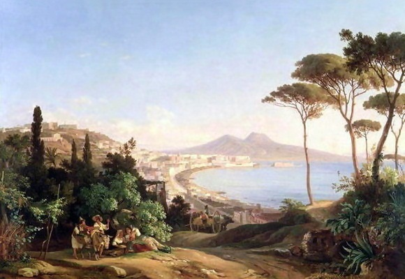 Painting by Carl Wilhelm Götzloff (1799-1866)